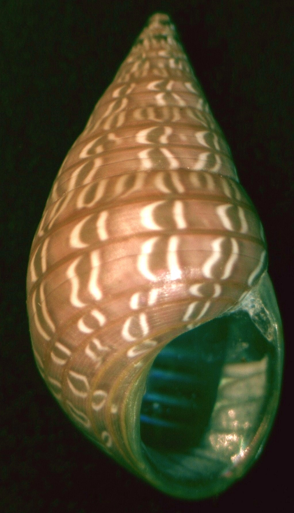 Phasianotrochus bellulus Philippi, 1845, a top snail from the family Trochidae; South Australia